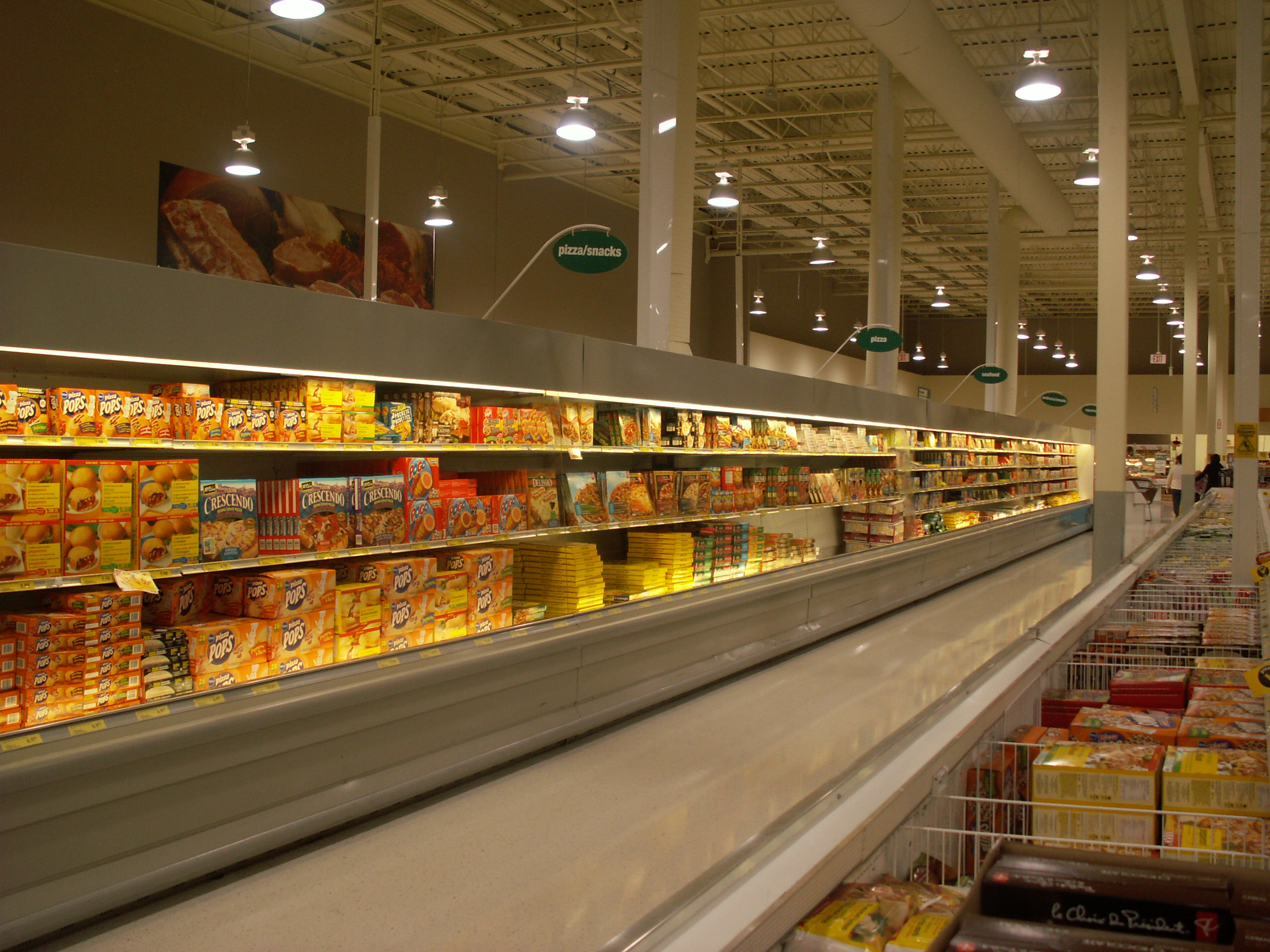 Frozen foods at the Real Canadian Superstore in Winkler, Manitoba